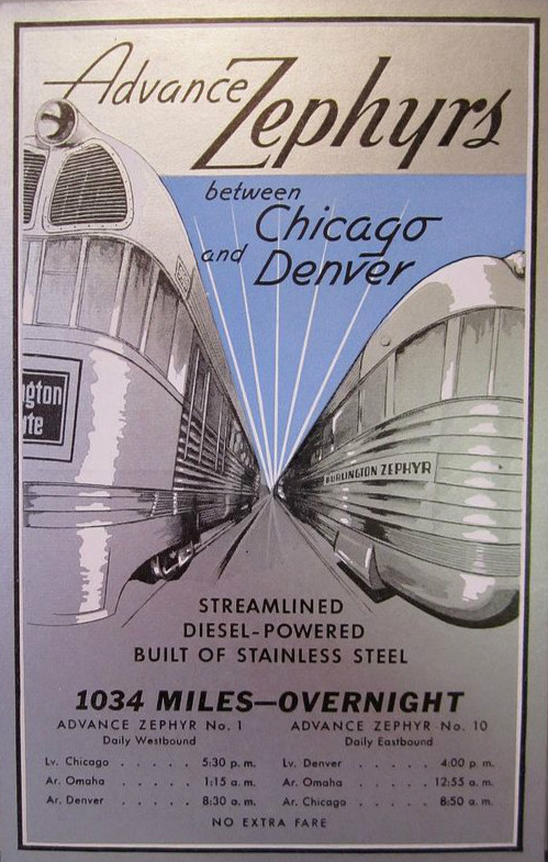 Promotional postcard for what would be named the Denver Zephyr. For some reason, Burlington appears to have scheduled the train before a formal name was chosen as this describes it as the "Advance Zephyr". The train is also described as having no sleeping cars--being coach only--"for the present". Pullman cars were listed as being part of the first consist of the train when it began in 1936. This appears to be a very early promotional piece for the train.